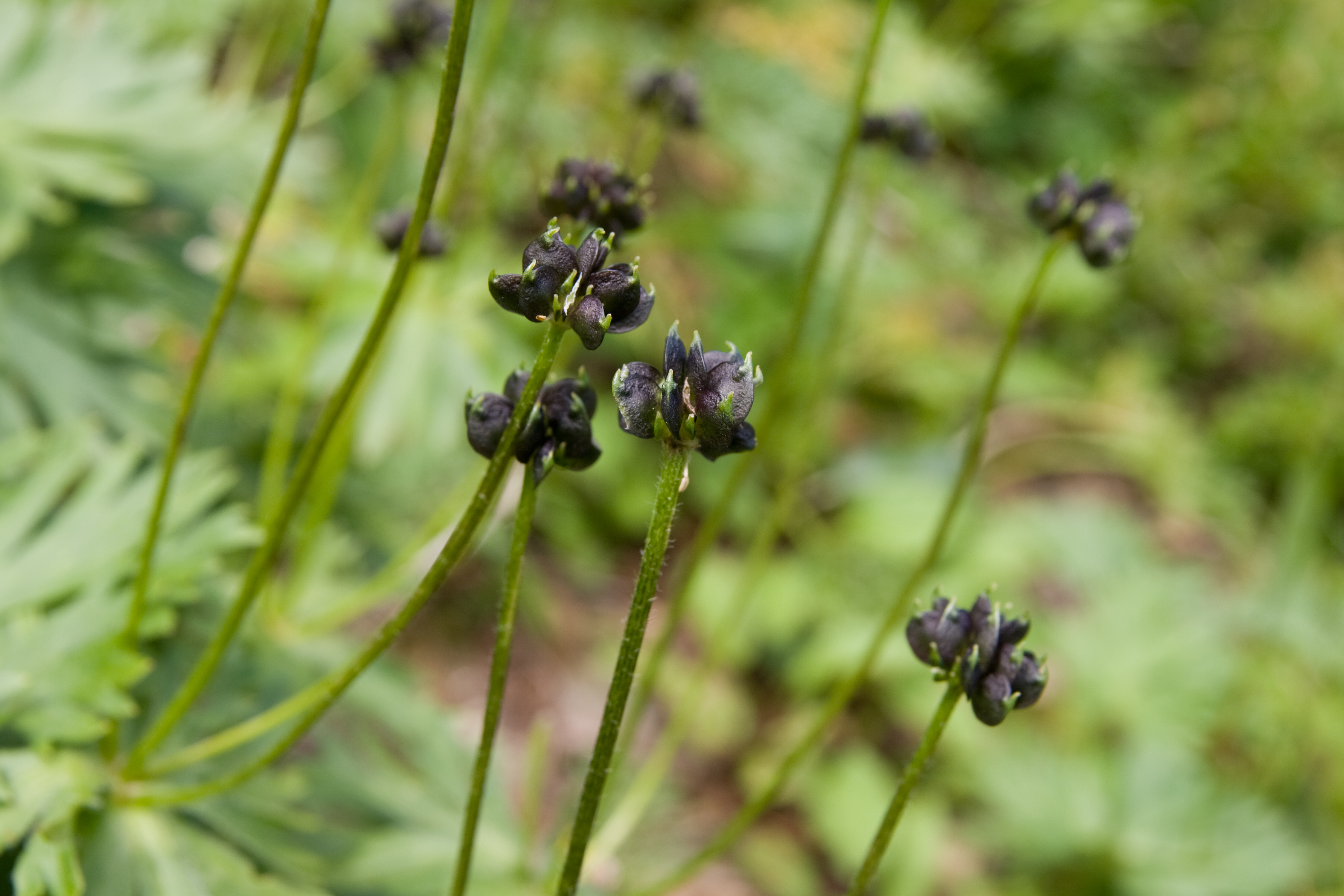 Anemone narcissiflora